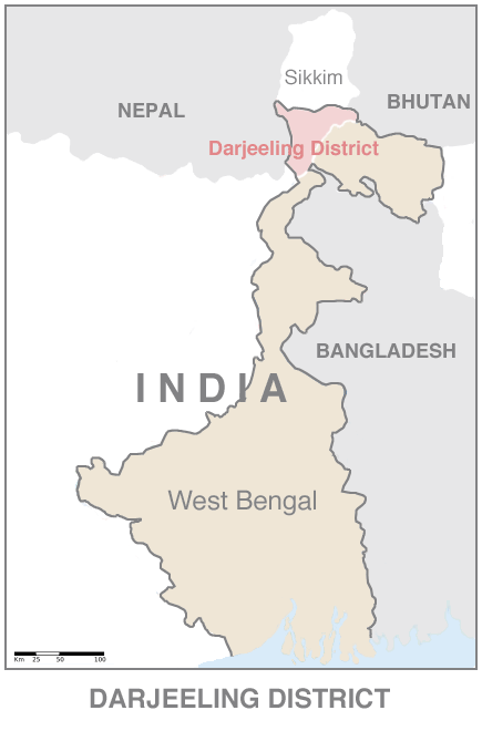 A simplified map showing the location of the Darjeeling District of West Bengal State, India.